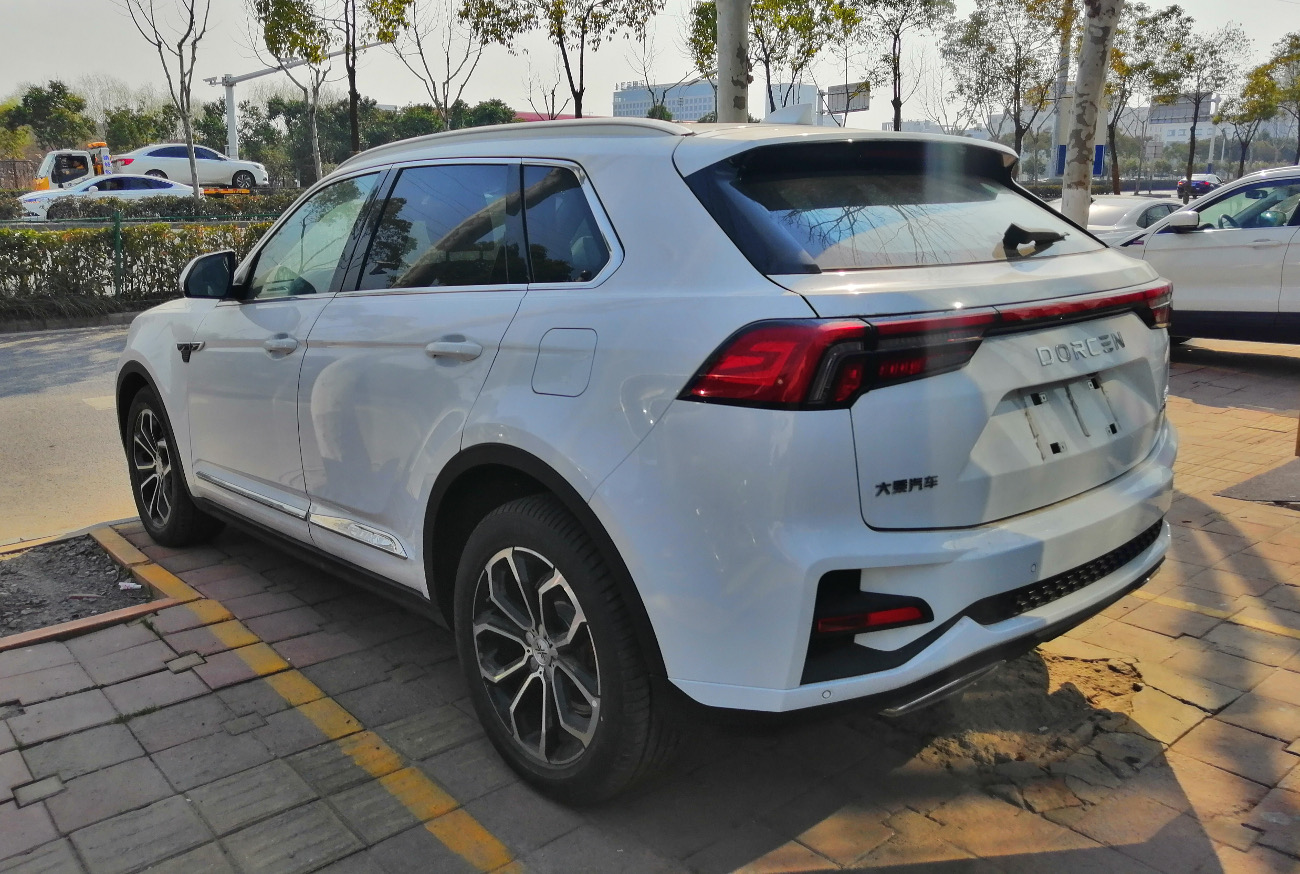 Dorcen G70S photographed in Hefei, Anhui province, China.